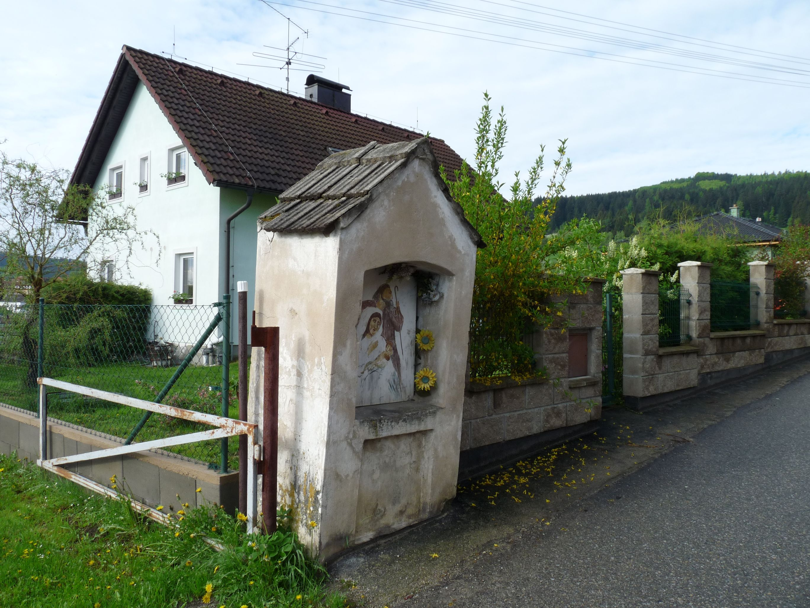 Wayside shrine in Okružní Street in the village of Němče, Český Krumlov District, South Bohemian Region, Czech Republic.